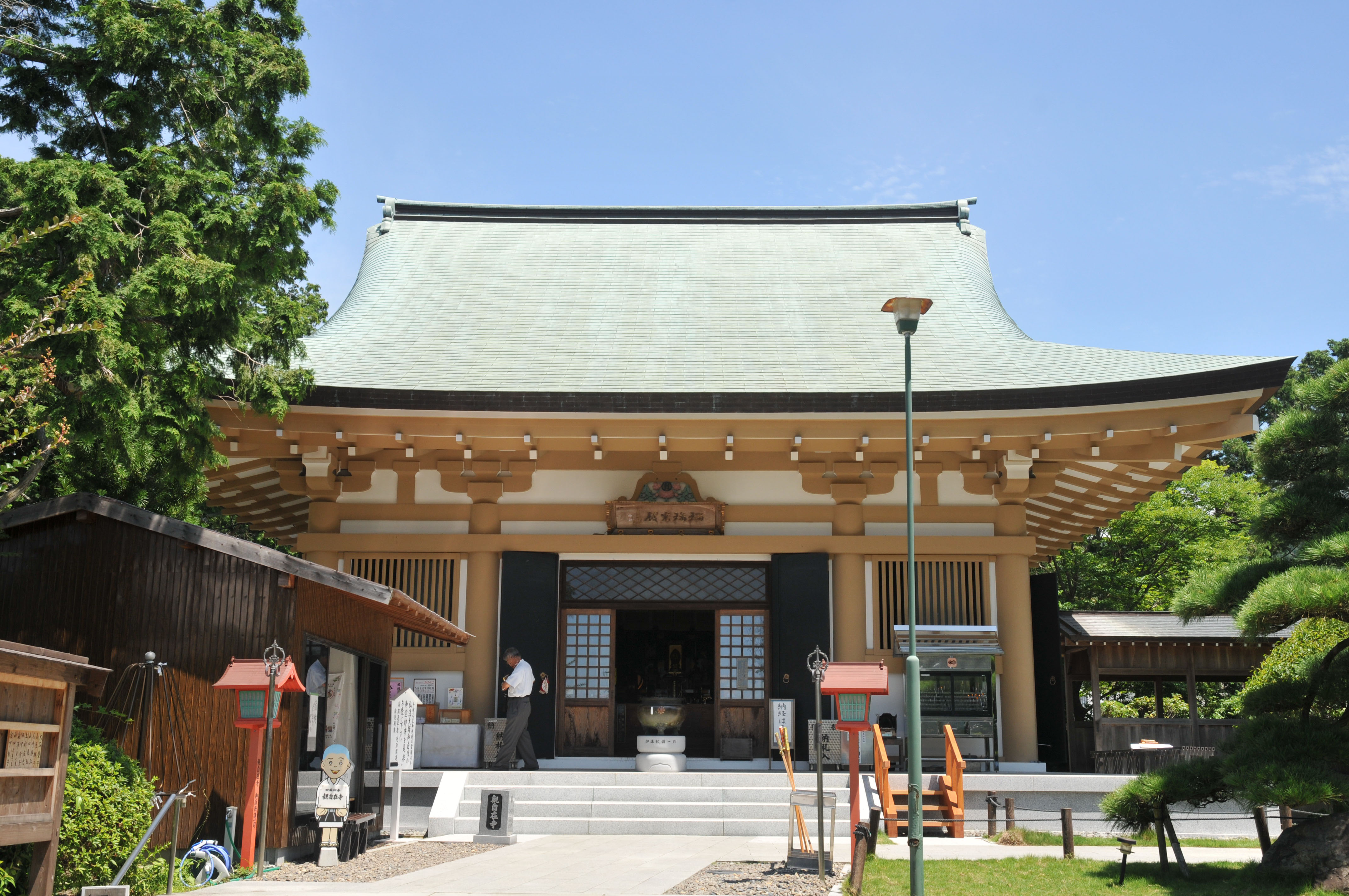 Main temple, Kanjizai-ji